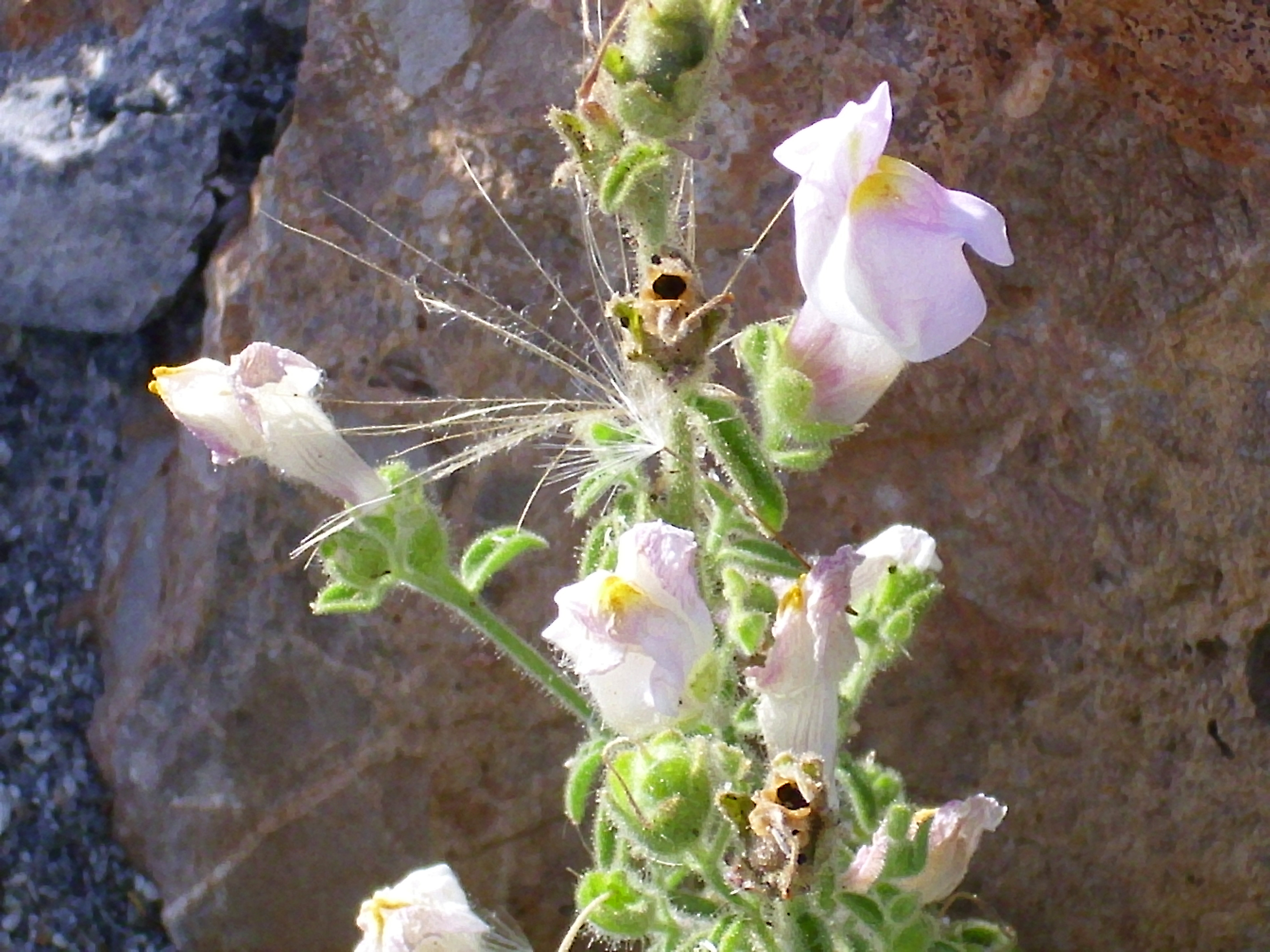 Antirrhinum hispanicum close up, Sierra Nevada, Spain